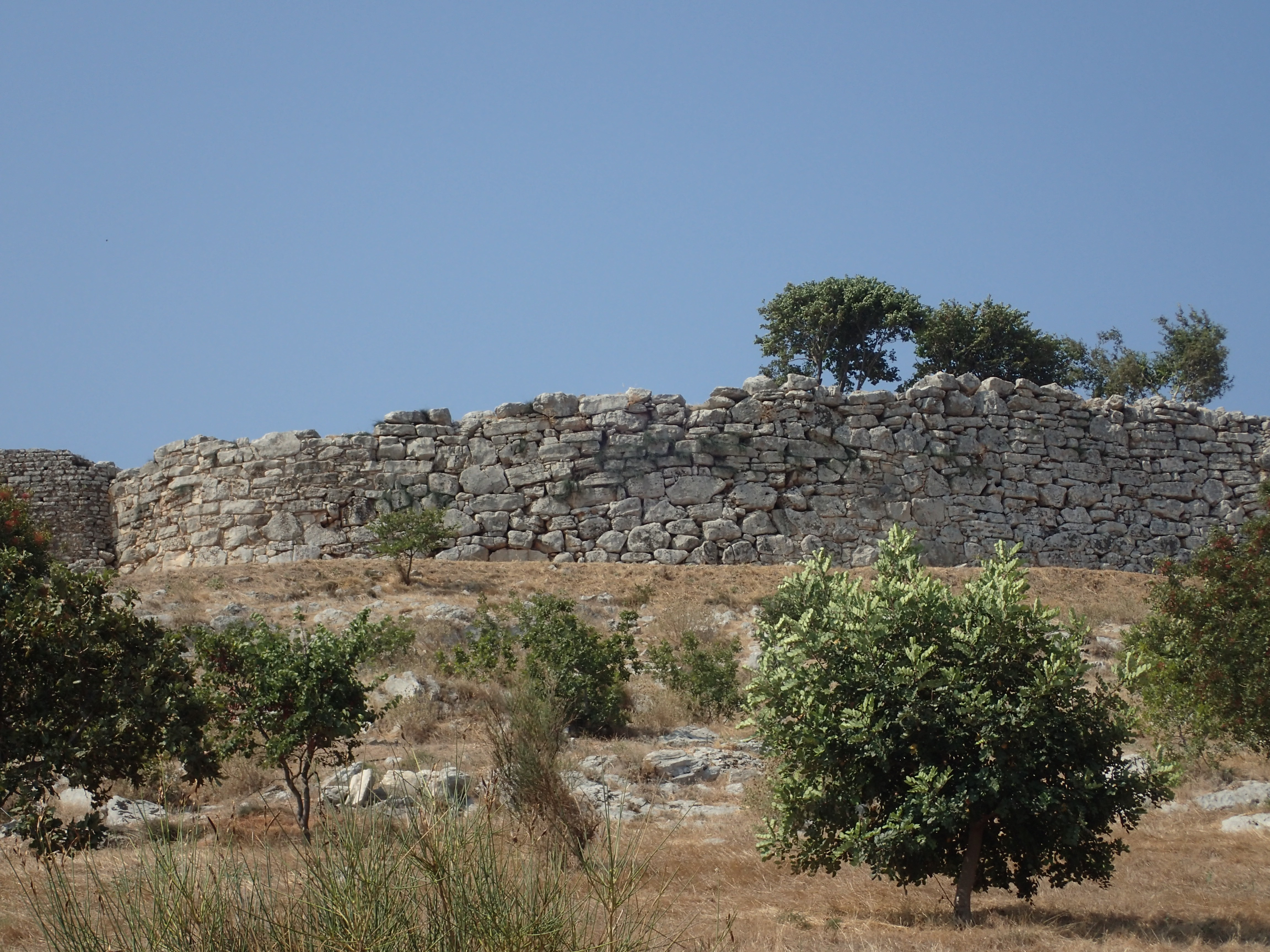 Teichos Dymaion in Greece, Peloponnese, Southwest of Patras